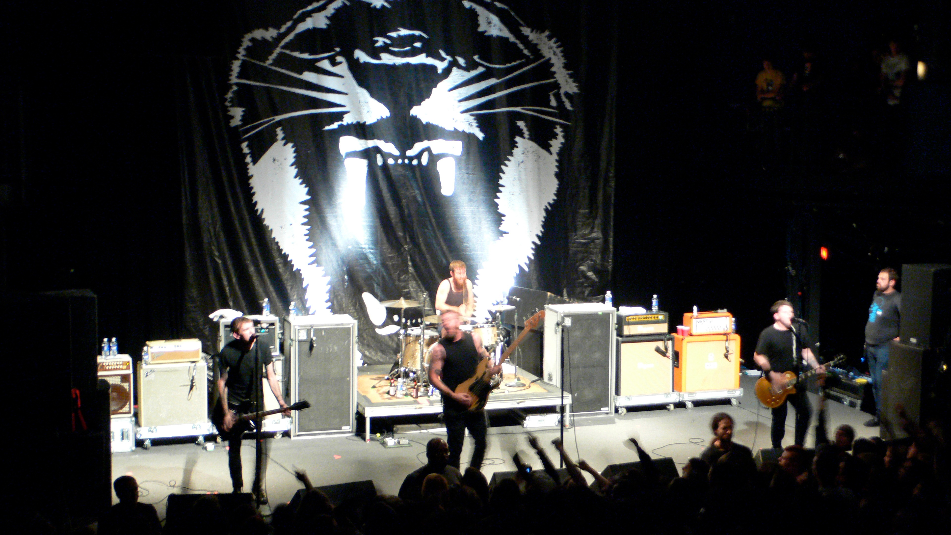 photo from flickr